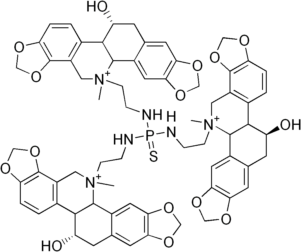 chemical structure of ukrain